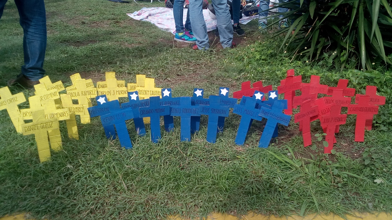 Crosses displaying the names of the deaths during the Venezuelan protests in 2017 during an opposition sit in